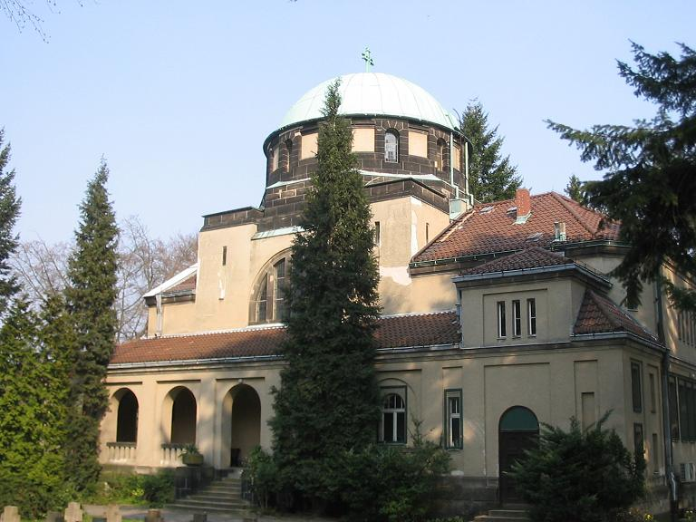 Cemetery „II. Städtischer Friedhof Eythstraße“ or „Landeseigener Friedhof Schöneberg II“ in Berlin-Schöneberg beside Alboinplatz. Listed chapel, built in 1910/12 by Paul Egeling.